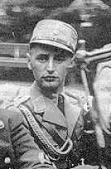 Hans Schweighart (1894-1934) as an aide-de-camp of Franz Ritter von Epp in 1933. He subsequently became aide-de-camp of Ernst Röhm and was executed in this capacity in Dachau Concentration Camp during the "Night of the Long Knives" on July 1st 1934.